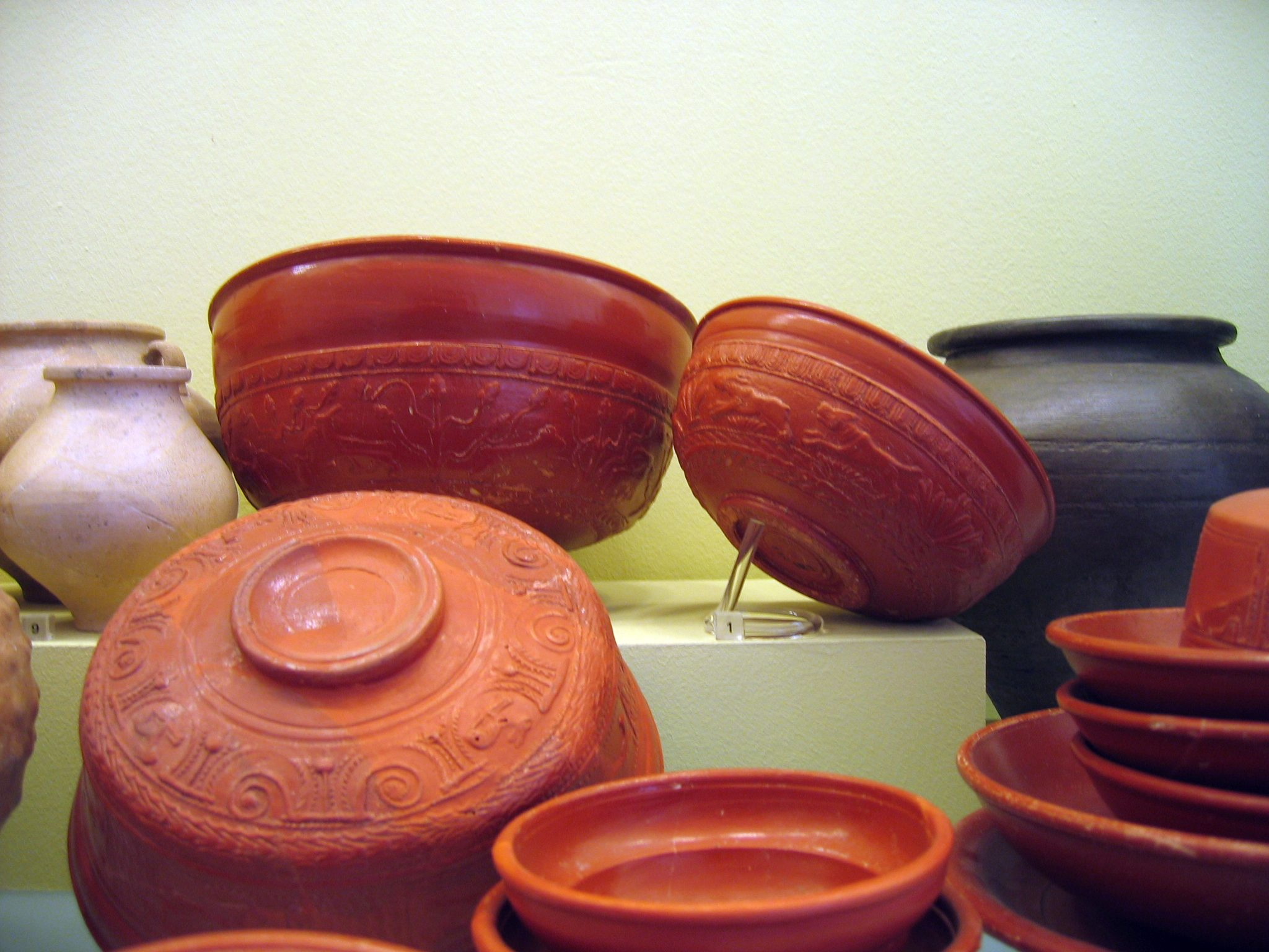 Picture of Roman Terra sigillata (relief terracotta).